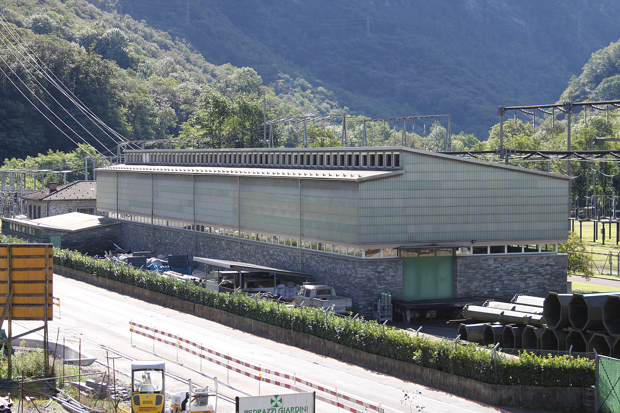 Ofima building in Avegno.